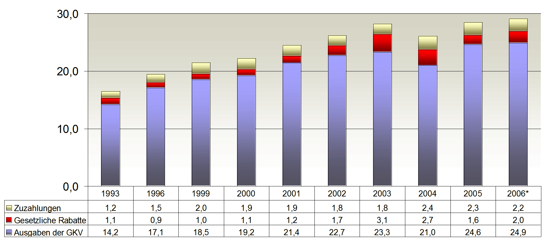 Expenditures of german health care providers for medicaments - Ausgaben der GKV für Arzneimittel